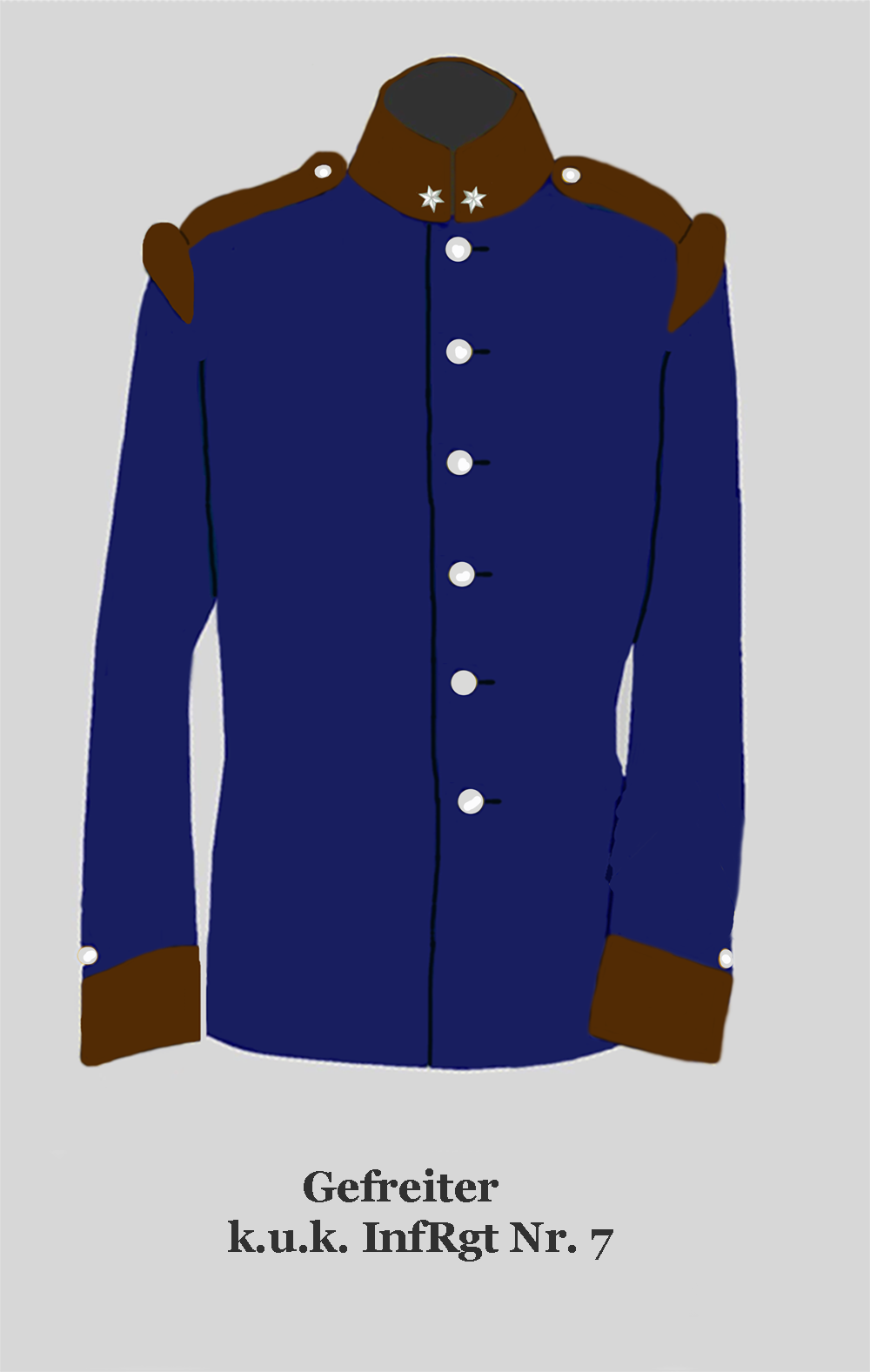 Private 1st class of the k.u.k. german 7th Infantry Regiment (Collar dark-brown, buttons white)